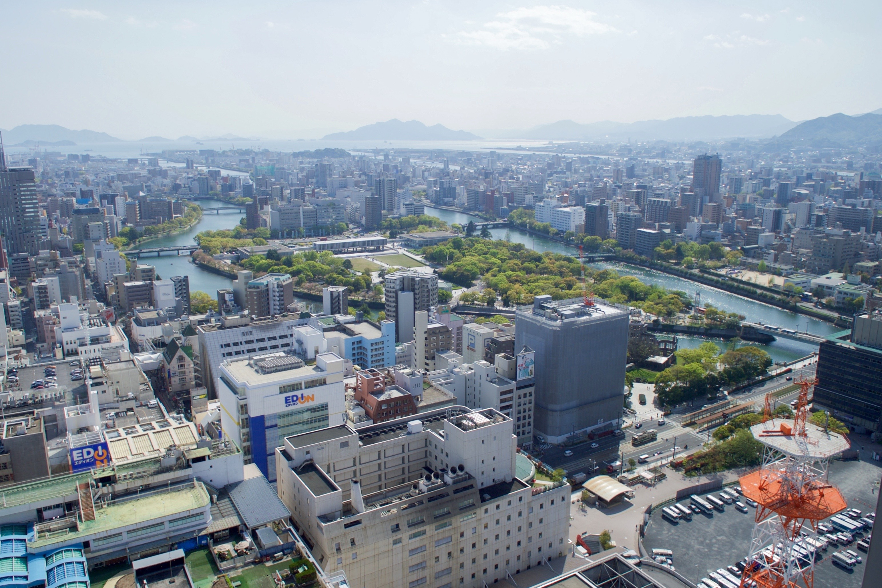 An overview of the Hiroshima, Castle in Hiroshima, Japan, as seen from a hotel rooftop on April 11, 2016, as U.S. Secretary of State John Kerry visited the city to attend the G7 Ministerial Meetings. [State Department photo/ Public Domain]